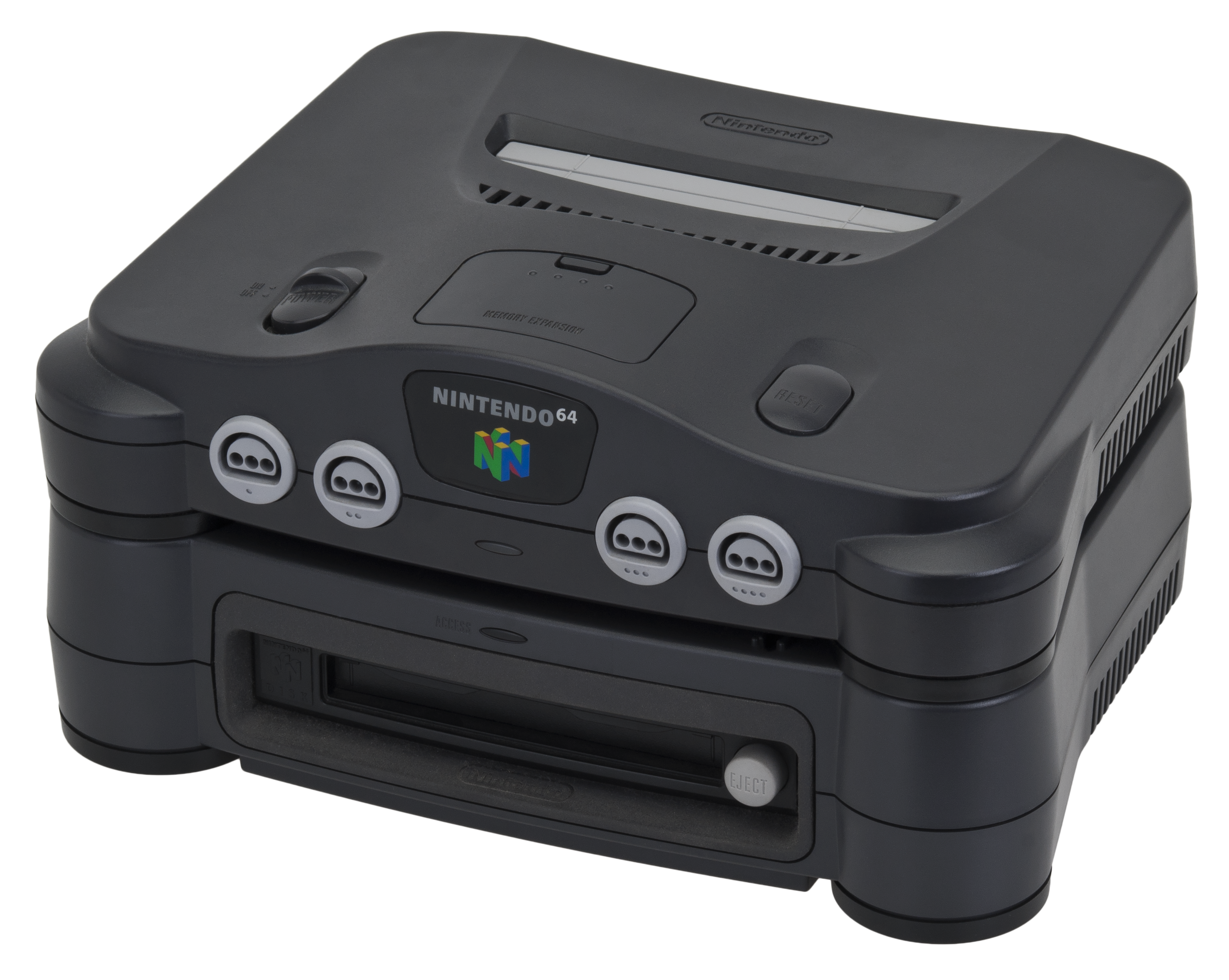 The Nintendo 64DD, an N64 add-on released only in Japan in 1999.